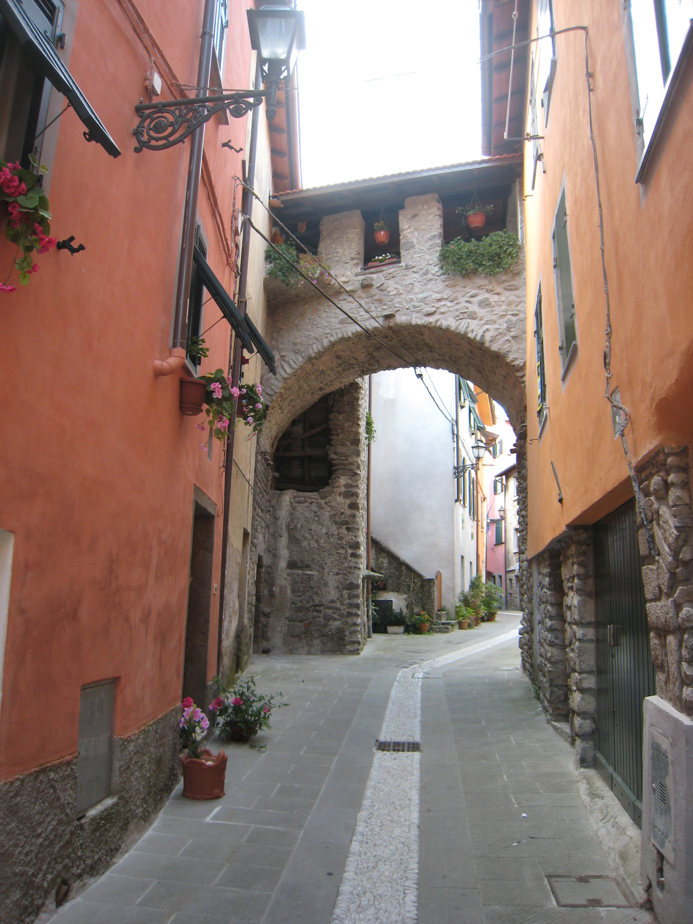 View of a lane in Brugnato Scorcio di una viuzza di Brugnato